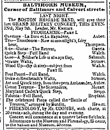 Newspaper item about the Boston Brigade Band at the Baltimore Museum. The Sun, May 9, 1840.